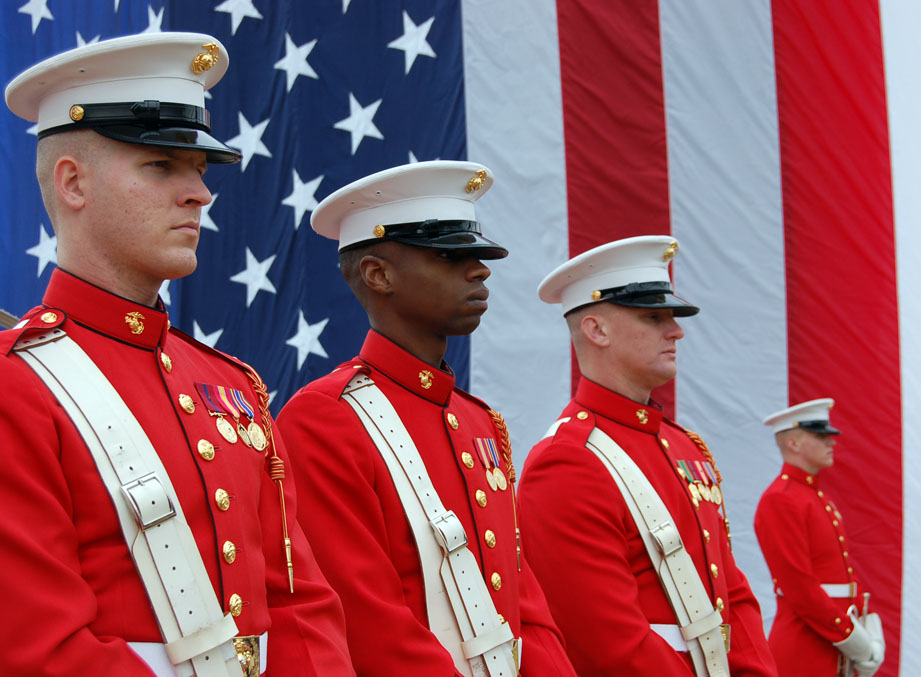 United States Marine Corps Band (January 2007). Photo by Peter Rimar.